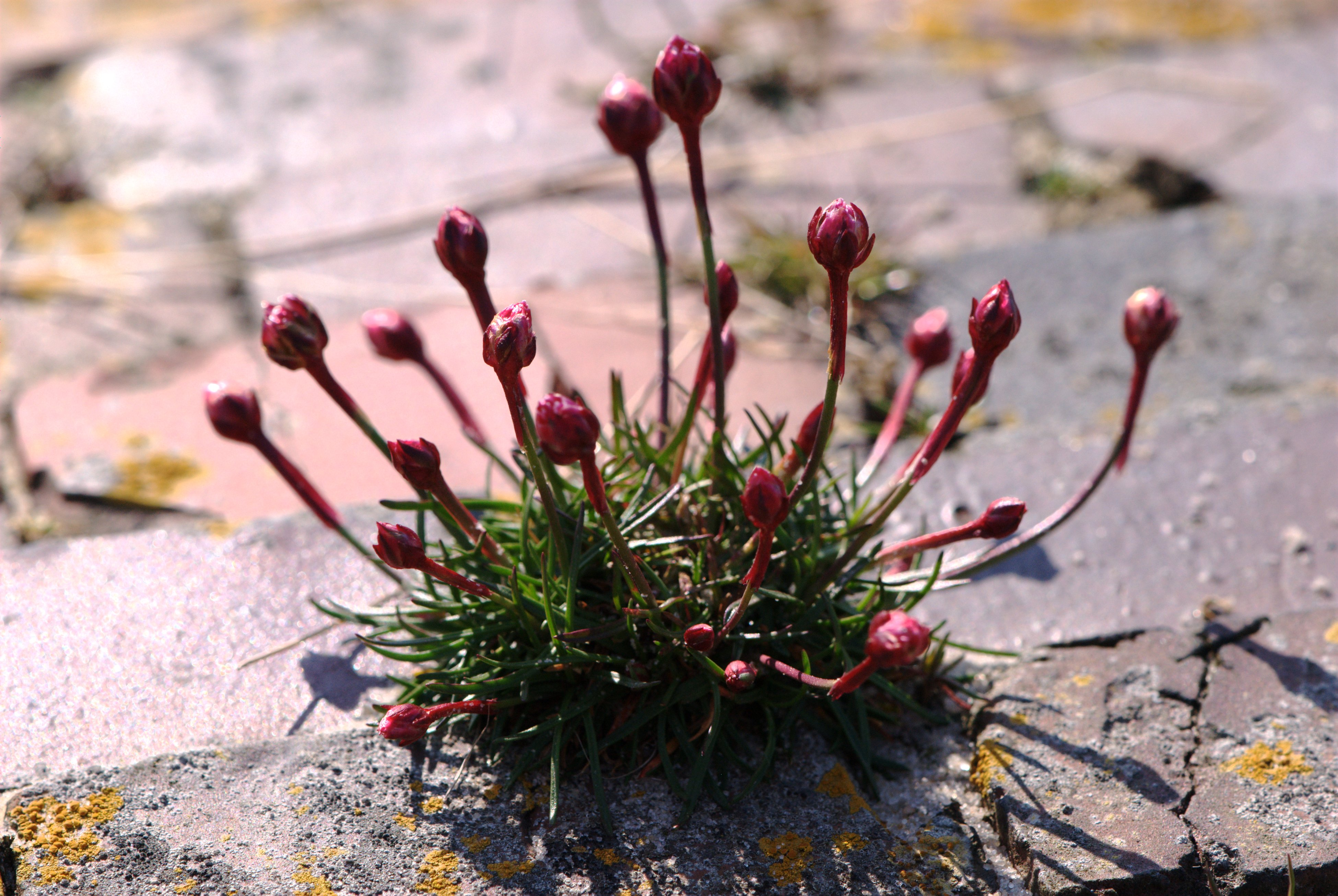 Buds of Armeria maritima, North Sea, Germany, Burhave, Butjadingen